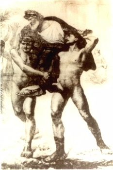 Diagoras of Rodes carried by his two sons during the Olympic Games